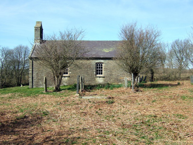 St Andrew's church, Bayvil, Nevern, Pembrokeshire, Wales. A redundant late Georgian church the care of The Friends of Friendless Churches.